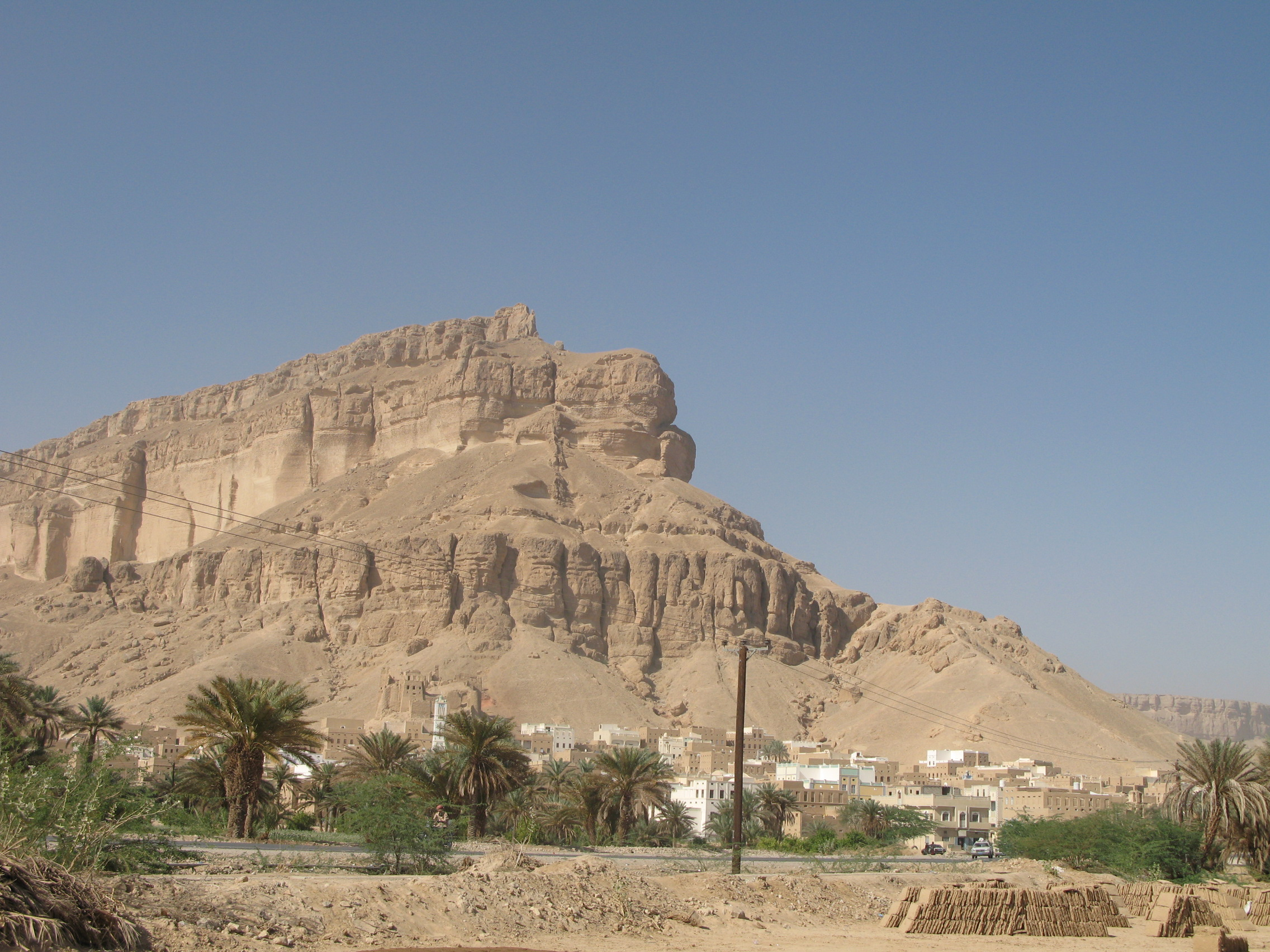 Wadi Hadhramaut, Yemen